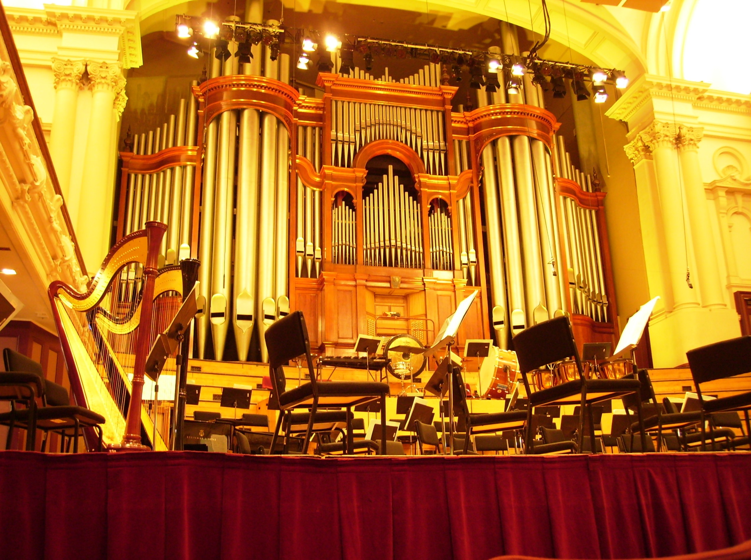 Auckland Town Hall Organ in Auckland,New Zealand. Taken before an Auckland youth symphony orchestra (AYO) in 2010.